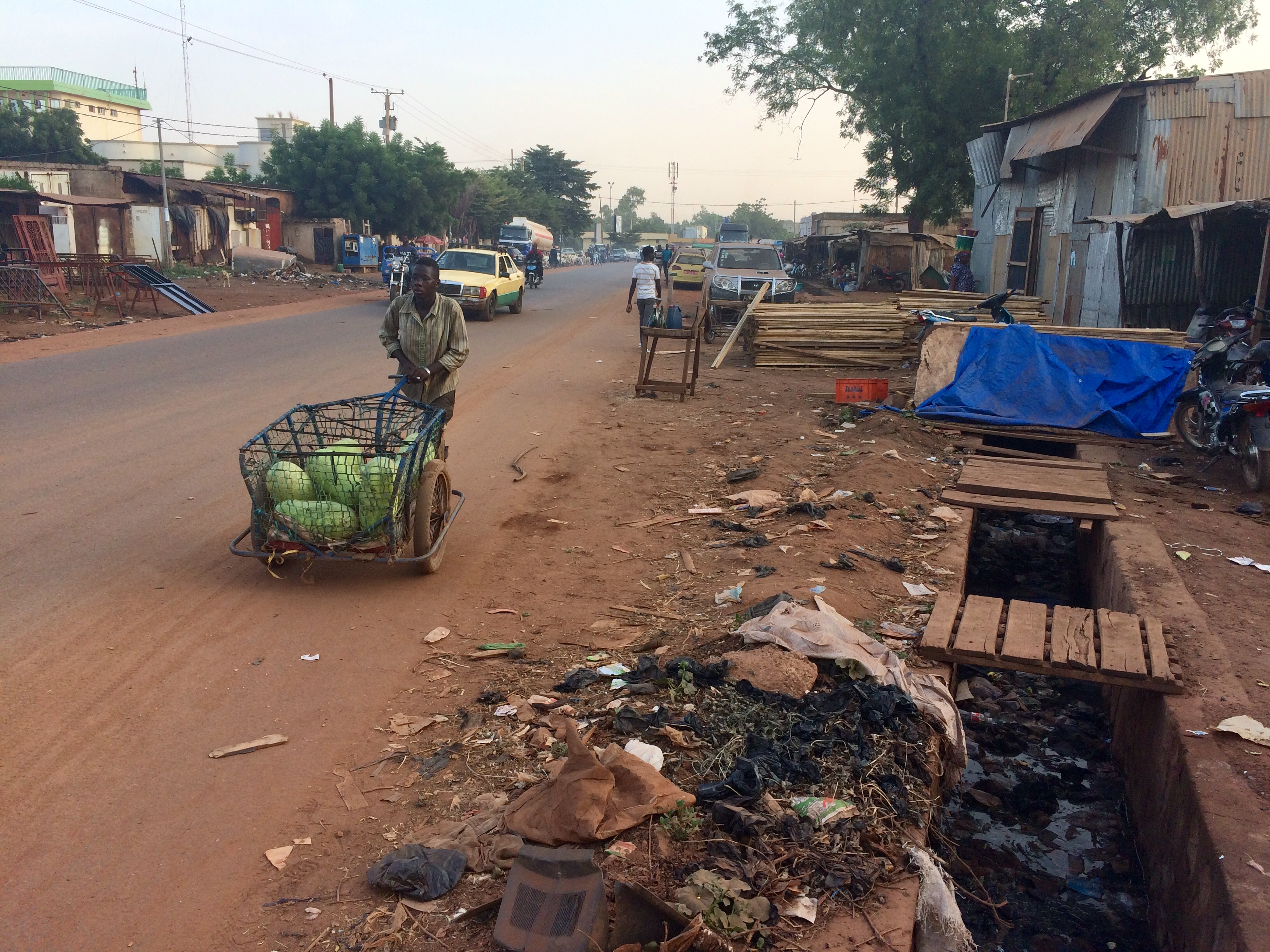 Street No. 249 in the Hippodrome neighborhood of Bamako, Mali. Note the open sewer.